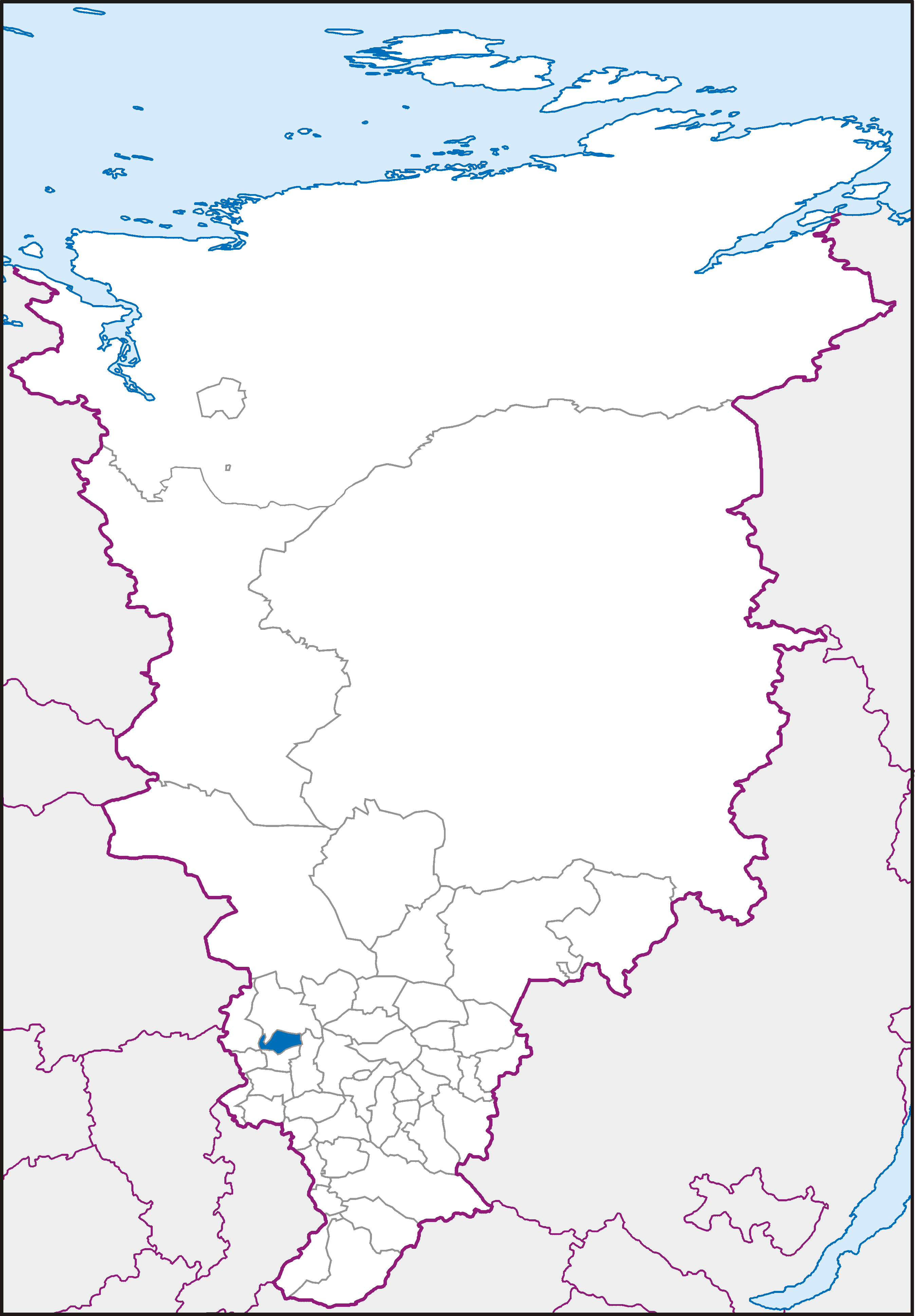 Map of Krasnoyarsk Krai in Albers Equal-Area Conic projection (Central Meridian = 95° E)